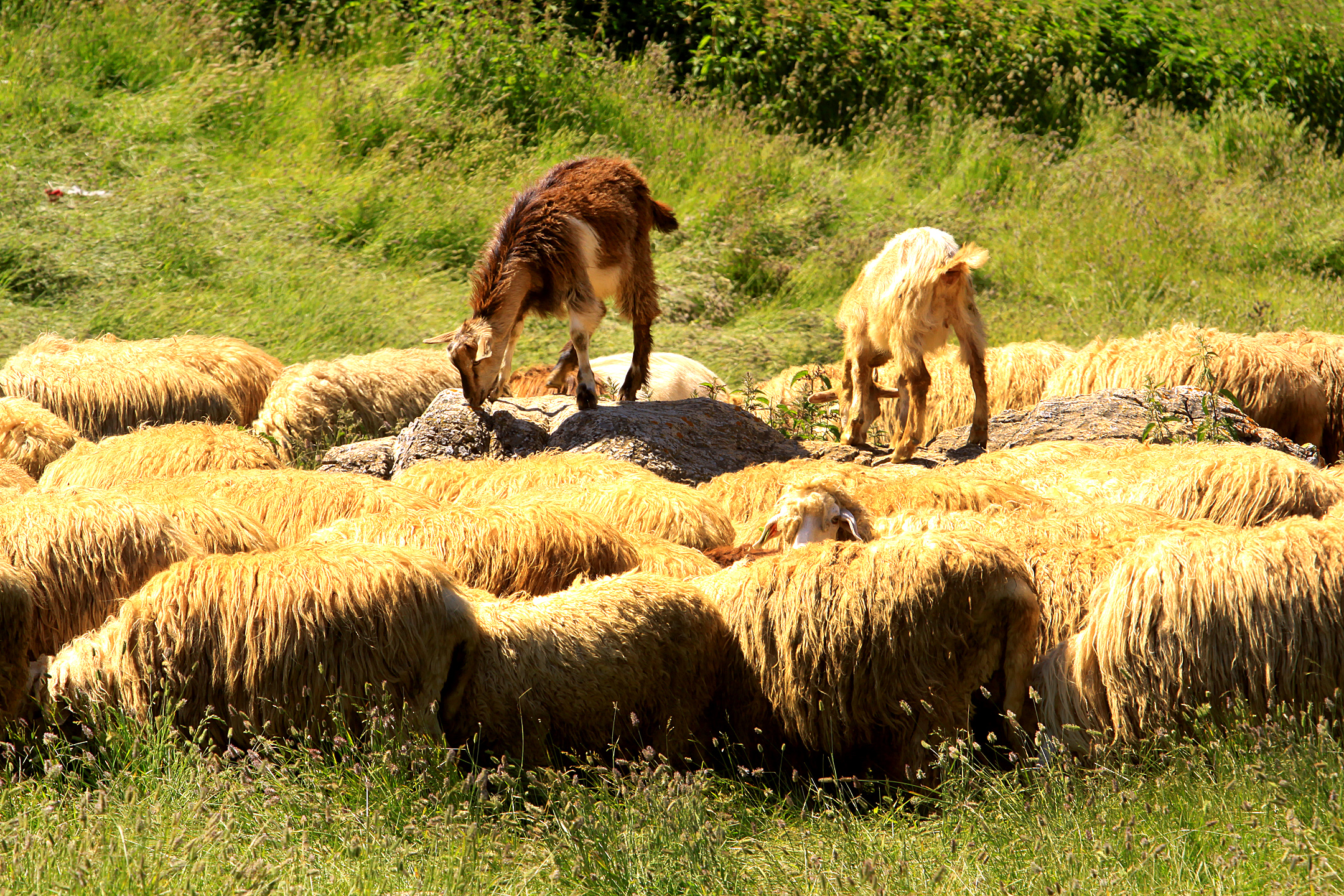 Sheeps ready to call it a day under Gjeravica